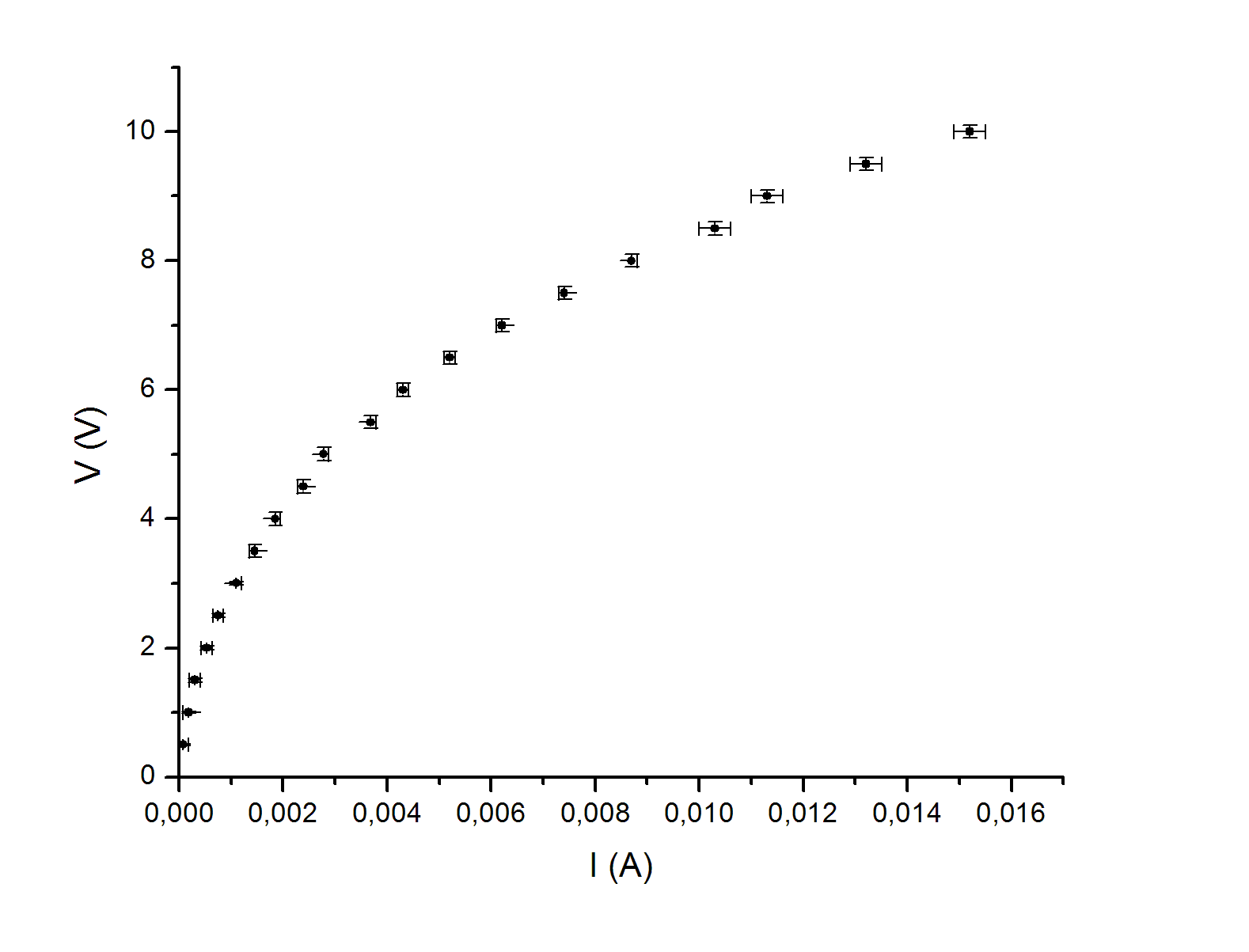 Experimental voltage-current curve of a varistor